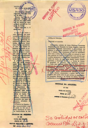 Pre-Press Page from the "Noticias da Amadora" newspaper dated July 21/1970 with the cuts and corrections imposed by the Censorship Commission of Lisbon.